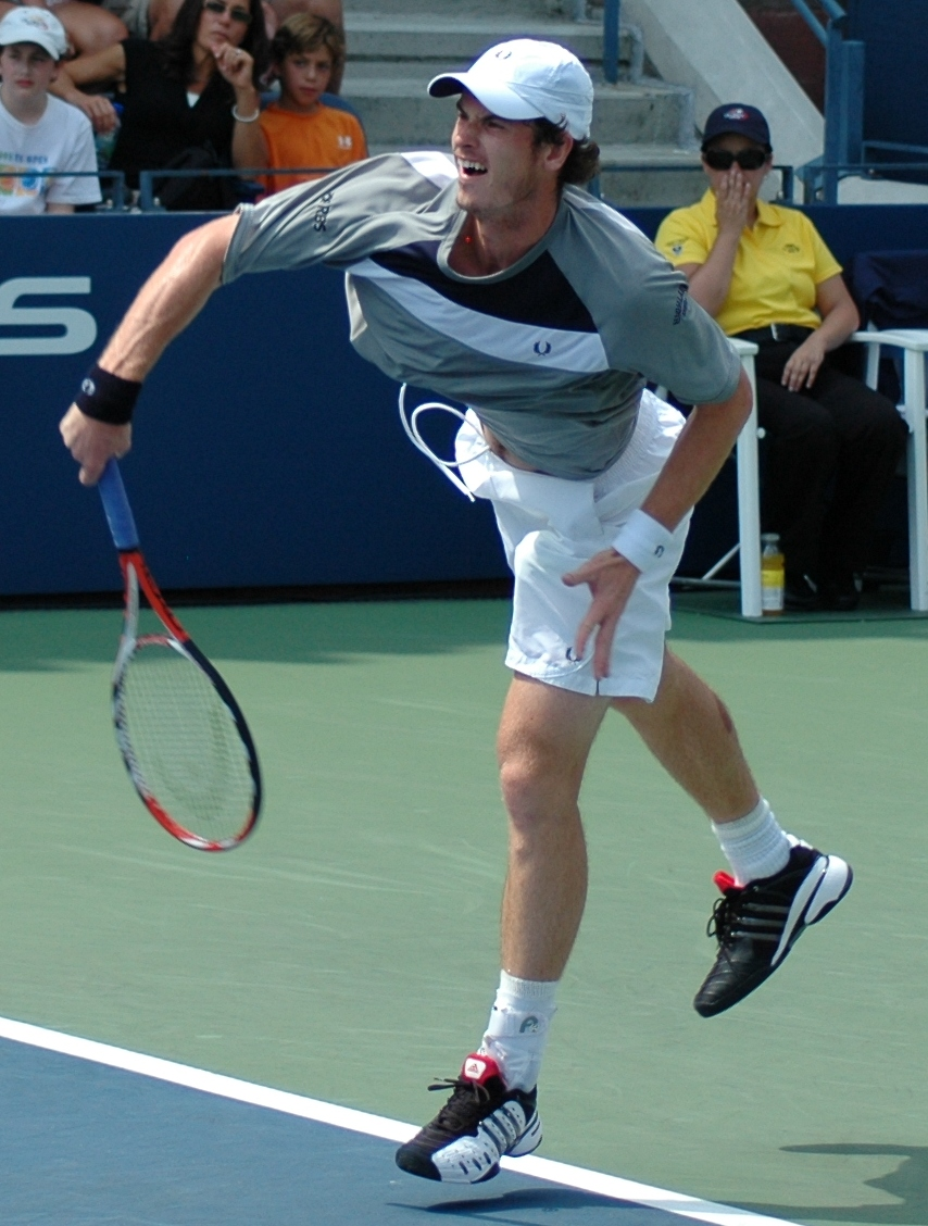 Andy Murray at the 2008 US Open